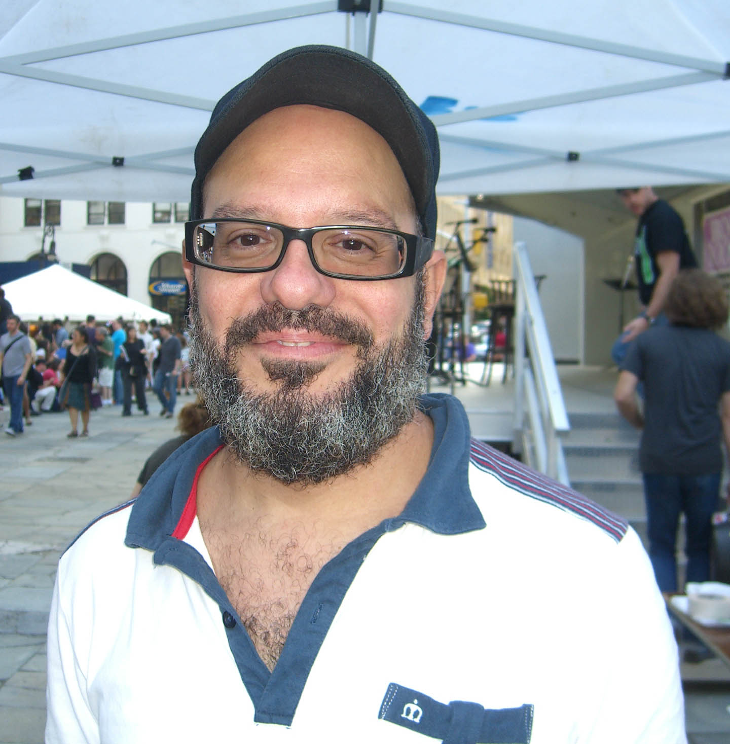 Comedian David Cross at the 2009 Brooklyn Book Festival.